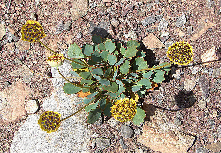 An alpine herb known as Anislao, at Teno lake on the Chile-Argentine border. In context at